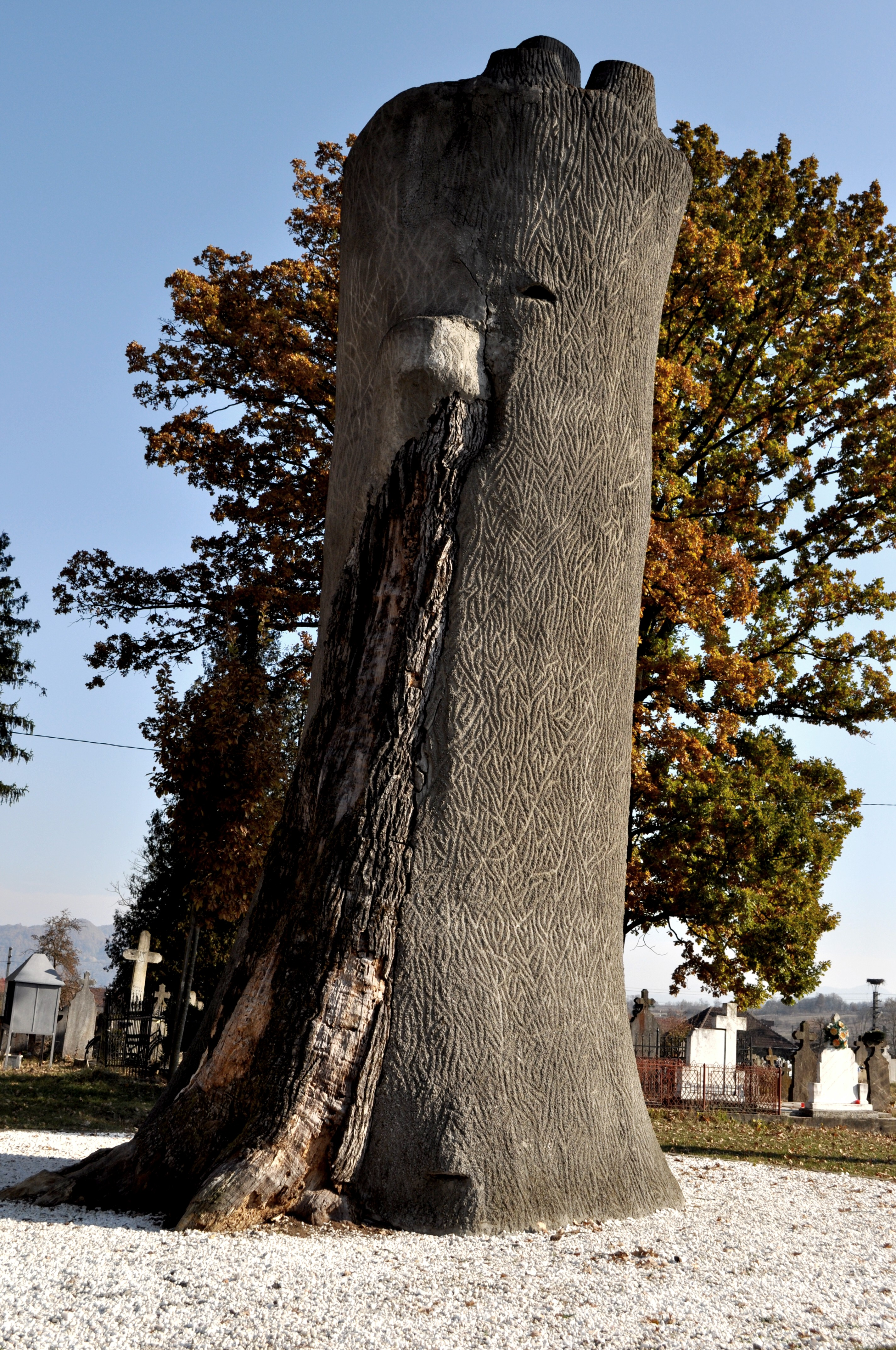 Horea's sessile oak